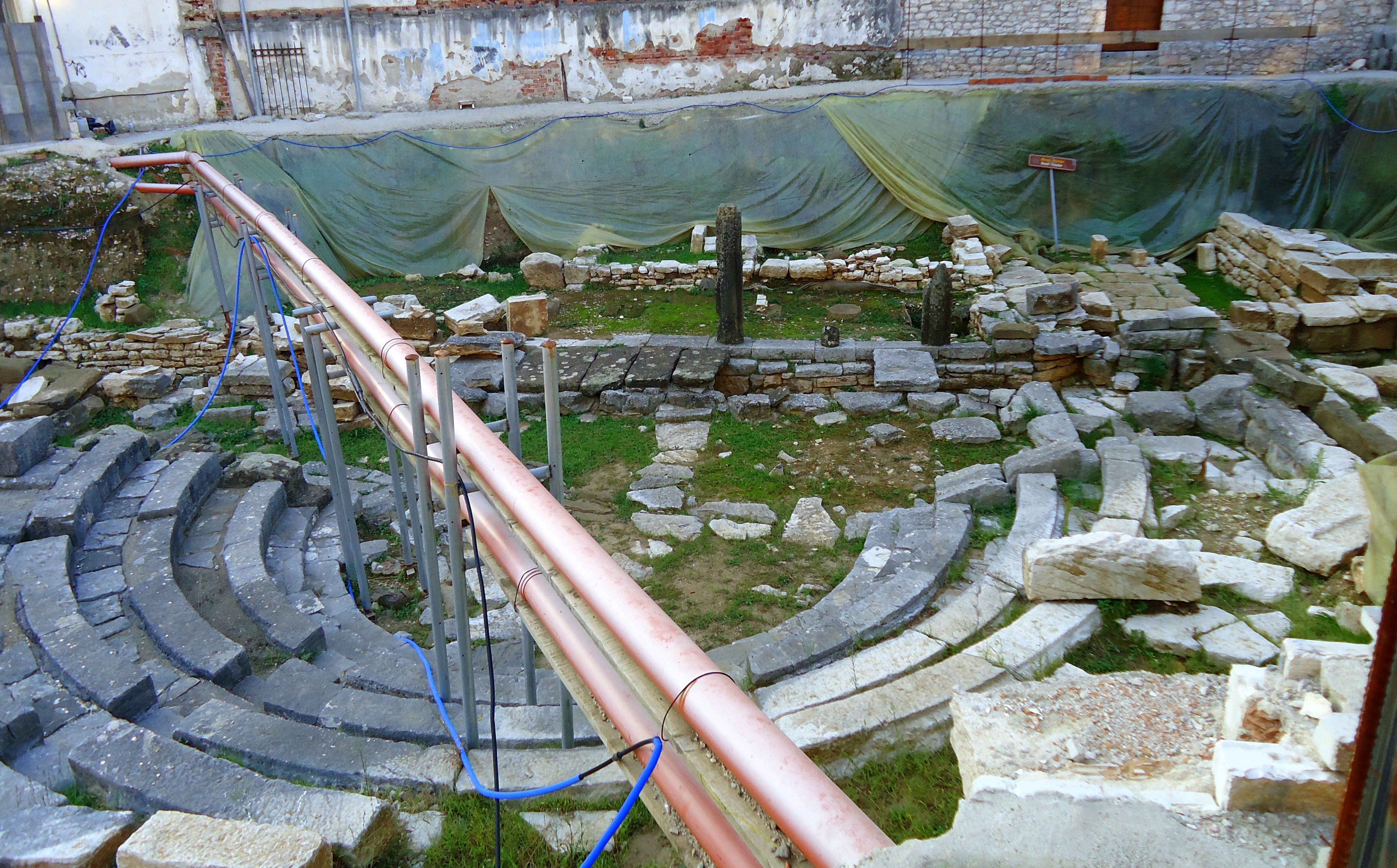 The Small theatre of Ambracia is the smallest of all ancient Greek theatres uncovered to date. It is located at the centre of the ancient city, near St. Constantine, in some distance from the late archaic temple of Apollo. Because of its overall architectural style, it is dated between the late fourth - early third century BC, during the reign of Pyrrhus. Being at the time the capital of the kingdom, the town flourished; apart from the small theatre, a large theatre was built near Apollo's temple, as well as a prytaneio (building for the reunions of prytaneis, i.e. similar to judicial authorities), which was found next to the temple.